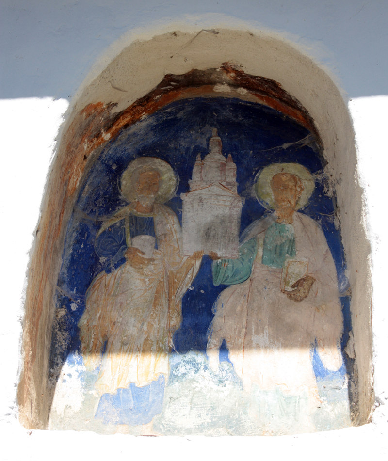 Fresco above the door of St.Peter and St.Paul Church in Mala Tsarkva village